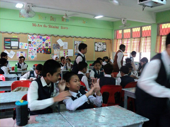 6 Sri Kinabalu